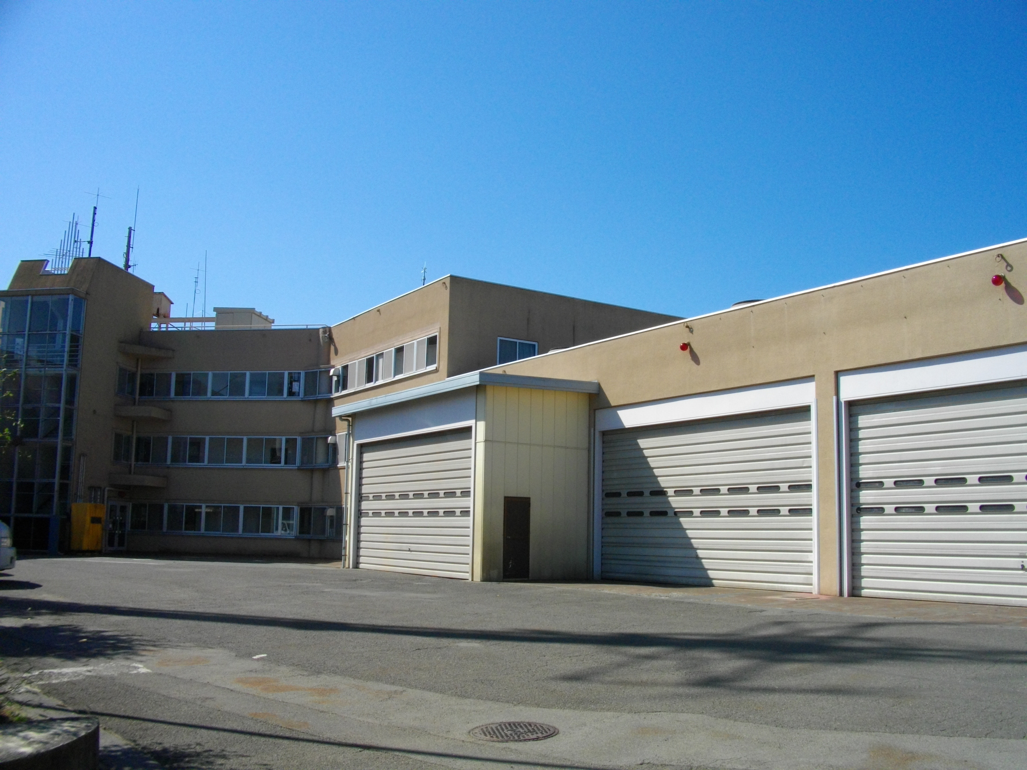 Fujigoko Fire Department